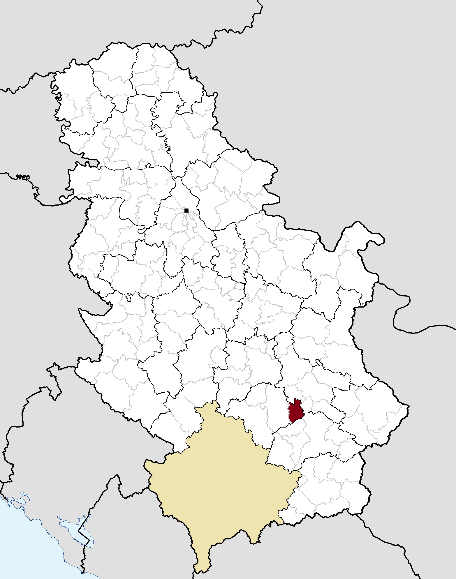 Municipal location in Serbia